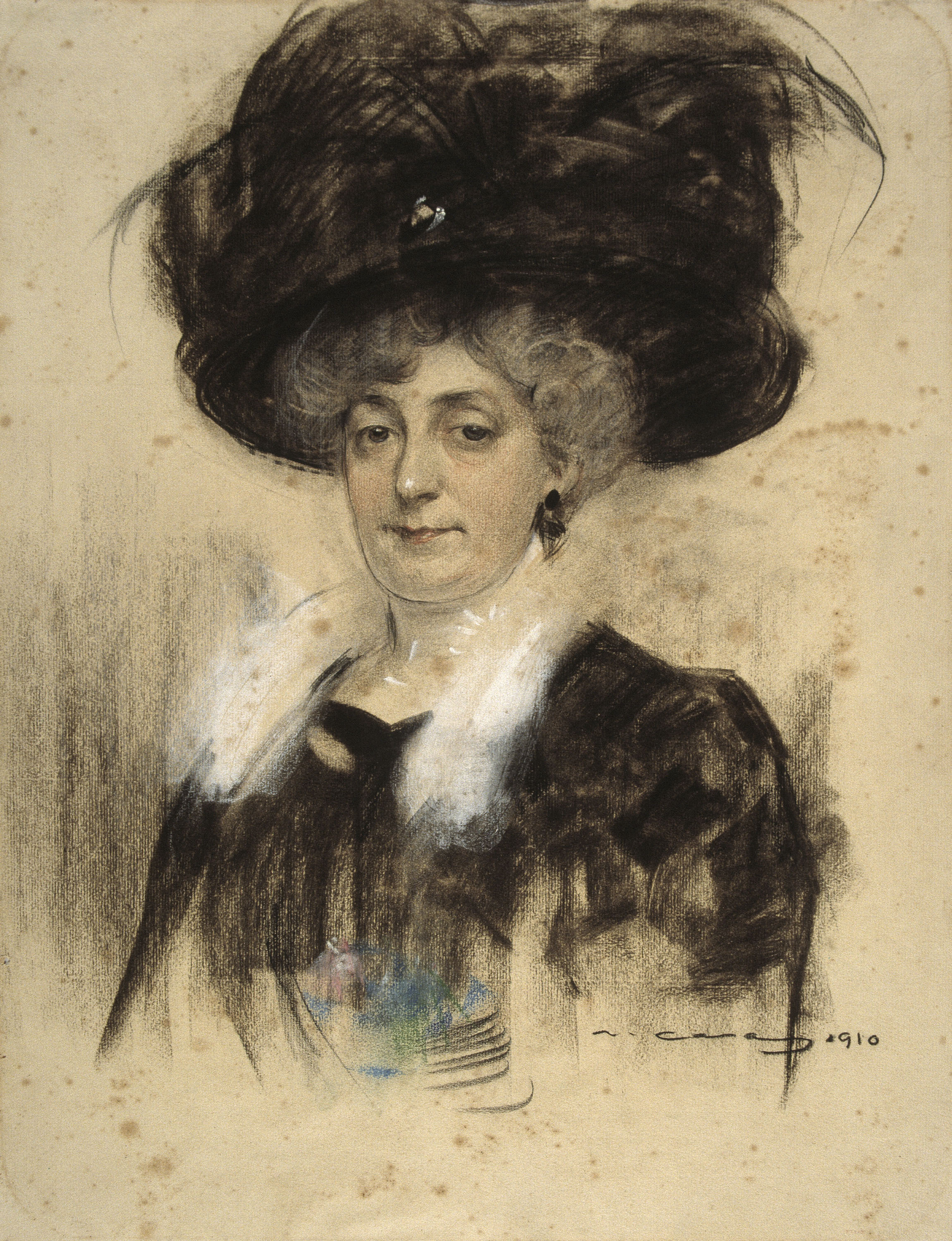 Portrait by Ramon Casas conserved at MNAC in Barcelona.